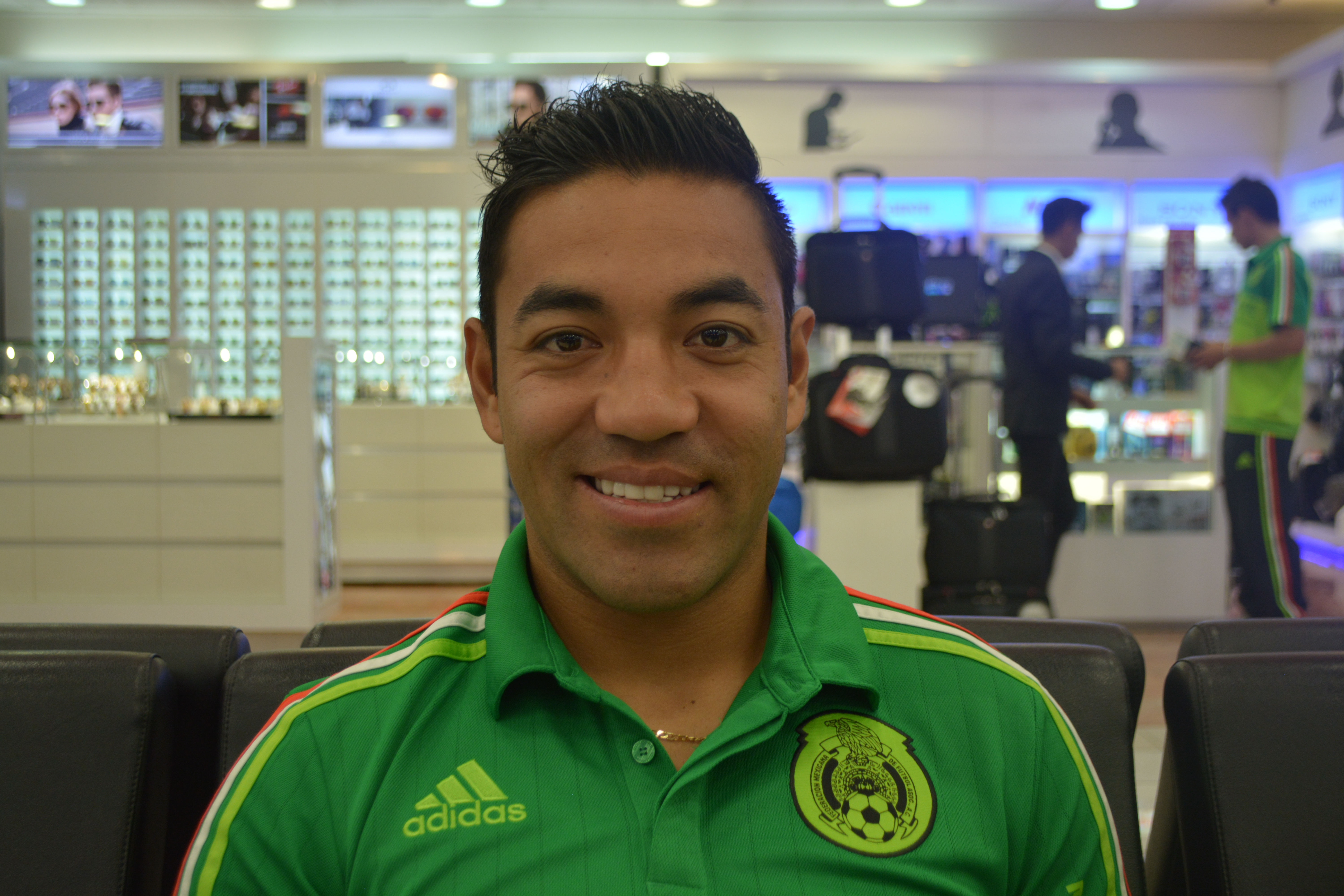 Marco Fabian de la Mora, Mexican soccer player.